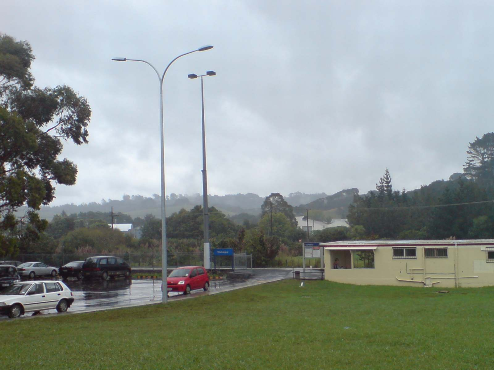 The Waitakere Train Station in Auckland, New Zealand. Looking west.